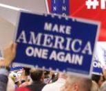 2016 RNC day 4